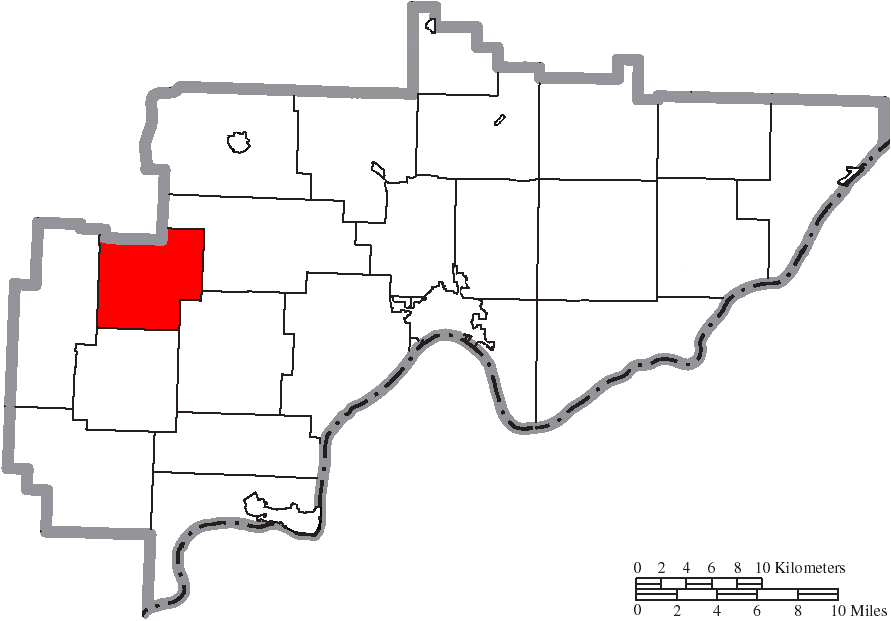 Map of the municipal and township boundaries of Washington County, Ohio, United States, as of the 2000 census, with the location of Palmer Township highlighted. Township borders are shown only in unincorporated areas in order to differentiate incorporated and unincorporated areas more clearly.